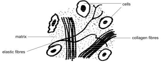 By Ruth Lawson - Otago Polytechnic.